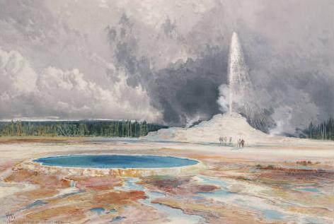 The Castle Geyser, Upper Geyser Basin, Yellowstone National Park from Hayden, Ferdinand Vandeveer (1829-1887), The Yellowstone National Park and the mountain region of portions of Idaho, Nevada, Colorado and Utah... (Boston: lithograph by L. Prang, 1876)